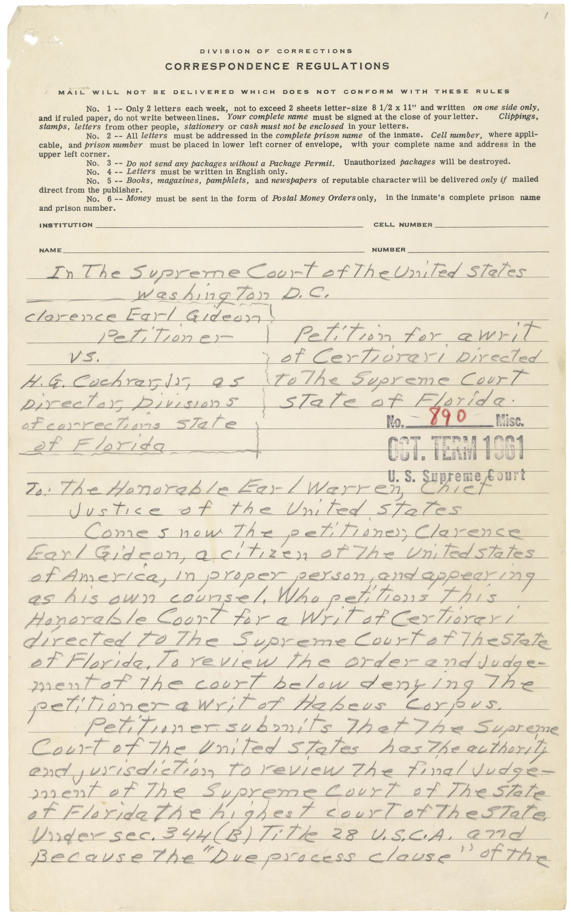 Clarence Earl Gideon's petition for certiorari to the U.S. Supreme Court, arguing that his denial for counsel during trial was unconstitutional under the Sixth Amendment. The petition was handwritten while Gideon was in jail. His research came entirely from the prison library. The case was heard at the Supreme Court in Gideon v. Wainwright (1963).